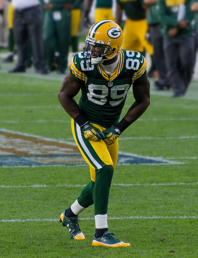 San Francisco 49ers vs. Green Bay Packers at Lambeau Field on September 9, 2012. Photo by Mike Morbeck.